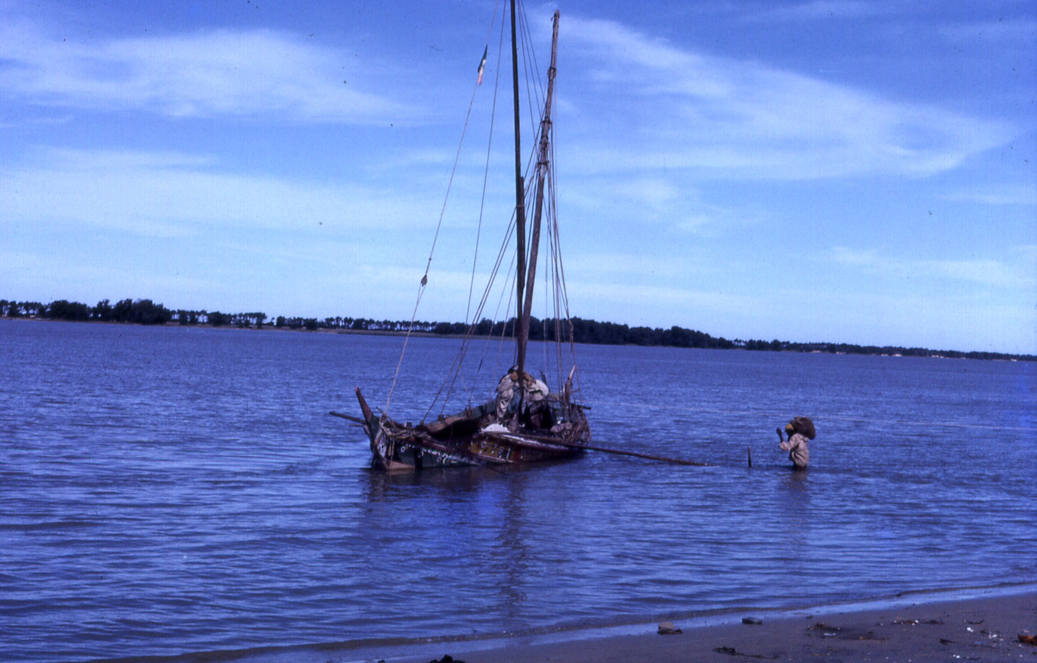 Unloading a boat on a partially-submerged plank at a village near St. Louis, Senegal. Photo taken in December 1967.